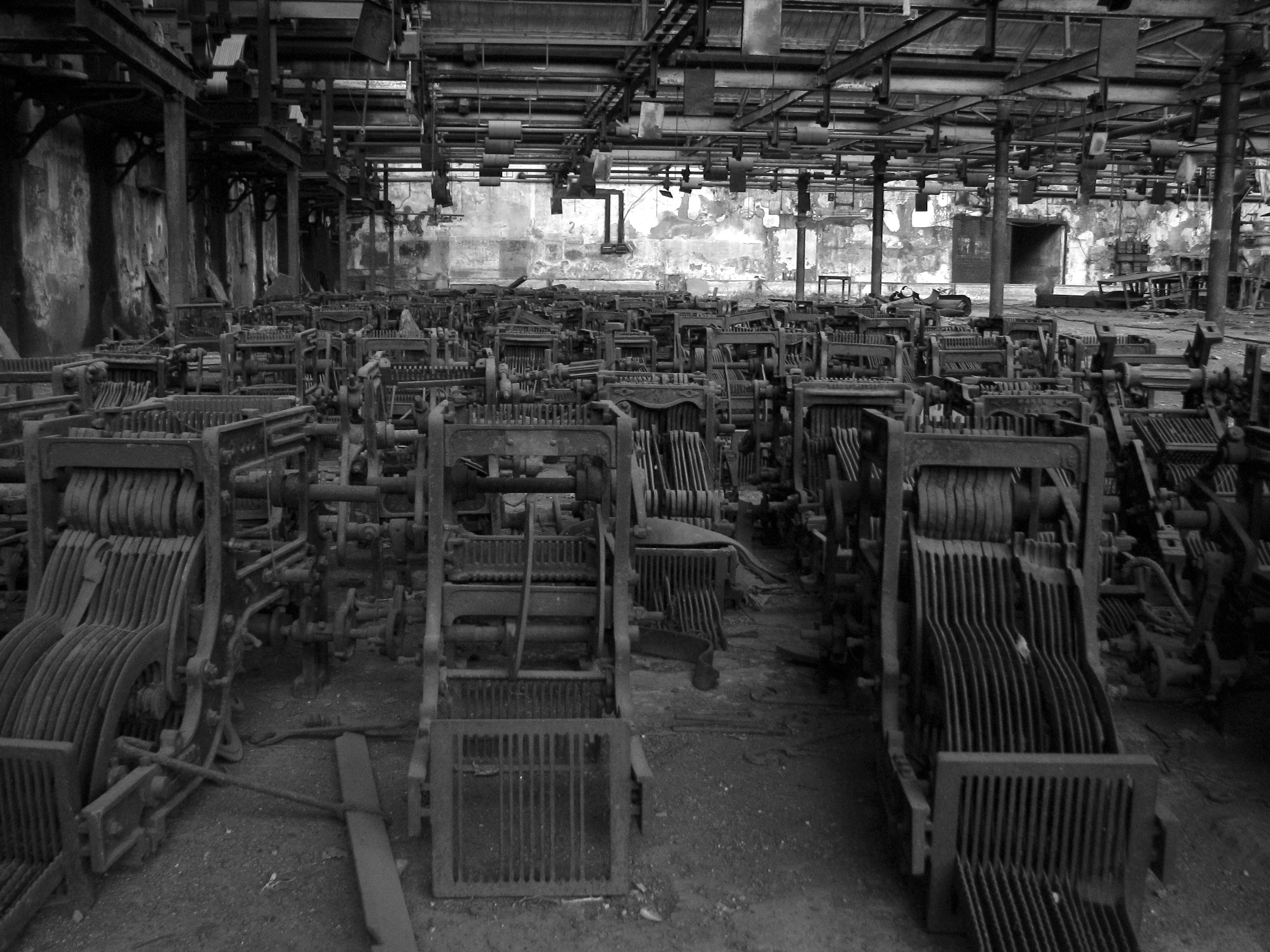 Abandoned Madhusudhan mills, Lower Parel, Mumbai